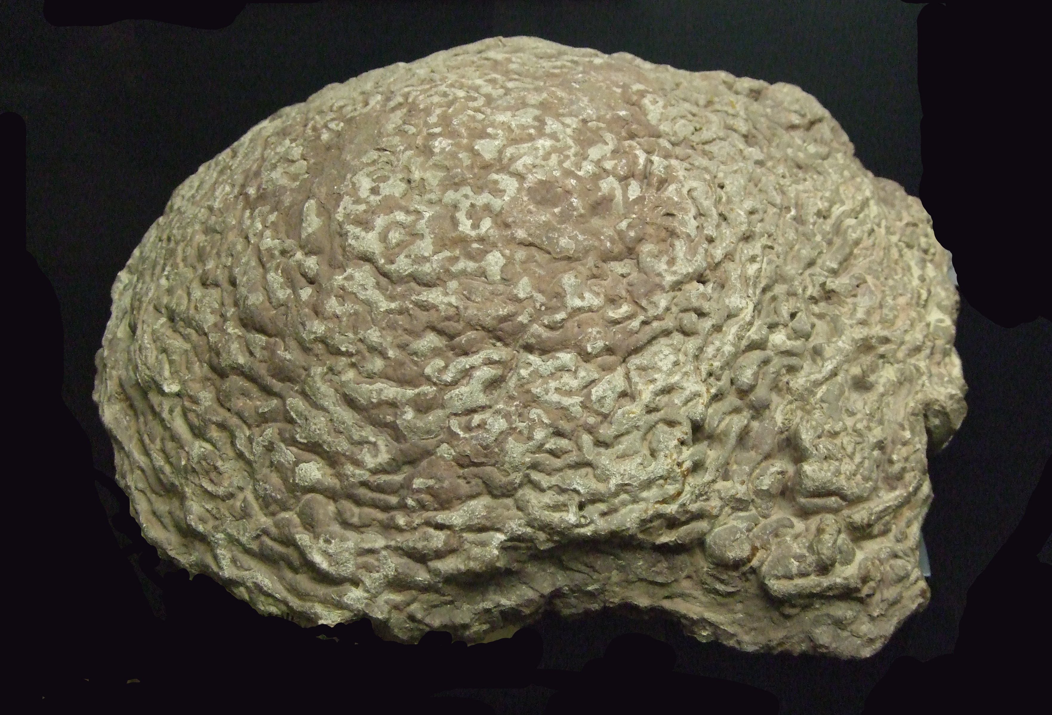 Stromatolite from Asse near Braunschweig, Germany. This item is a type of the original description of Ernst Louis Kalkowsky: Oolith und Stromatolith im Norddeutschen Buntsandstein. In: Zeitschrift der Deutschen Geologischen Gesellschaft. Bd. 60, 1908, S. 68-125. It is the item of Plate XI, Fig. 1, now in the collection Senckenberg Naturhistorische Sammlungen Dresden, Germany, Inv.-No. MMG PB NsTr 2.